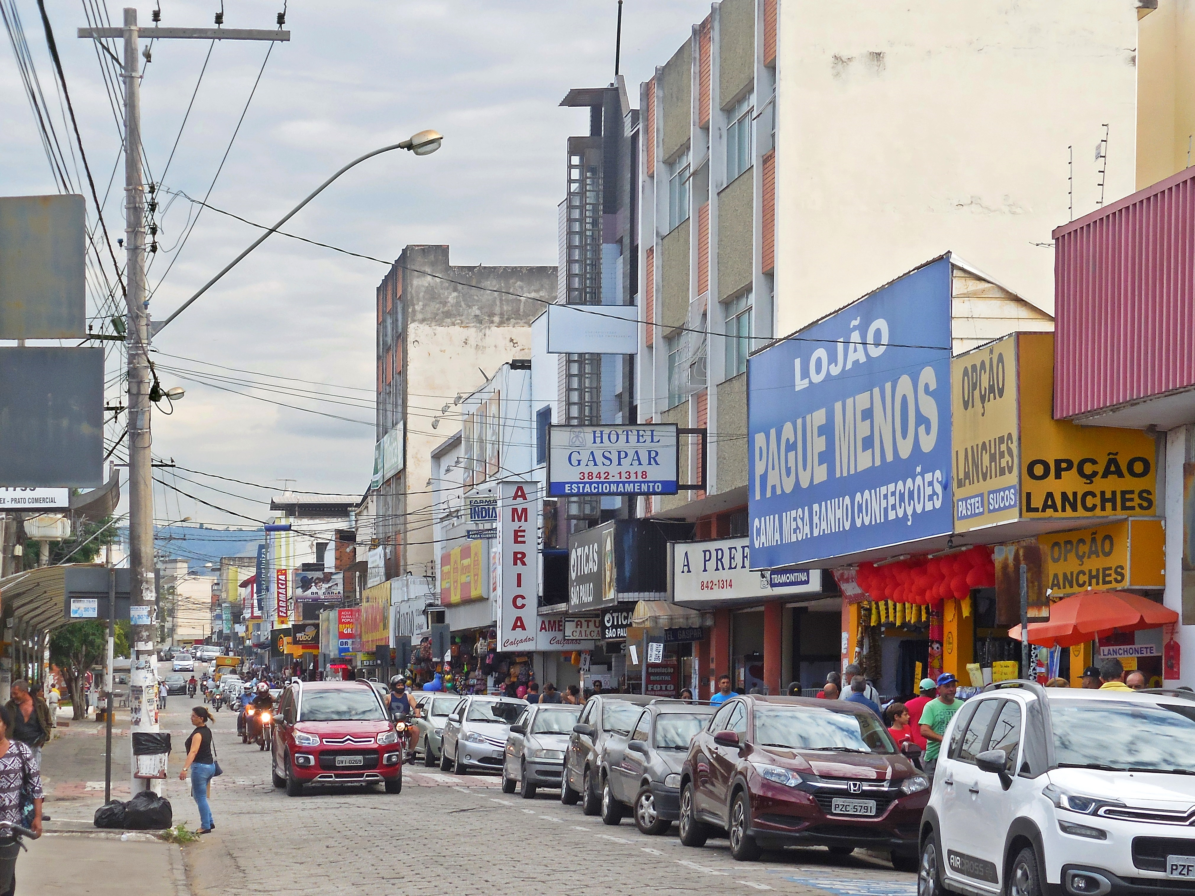 Commerce in the Pedro Nolasco street, in Coronel Fabriciano, Minas Gerais, Brazil.